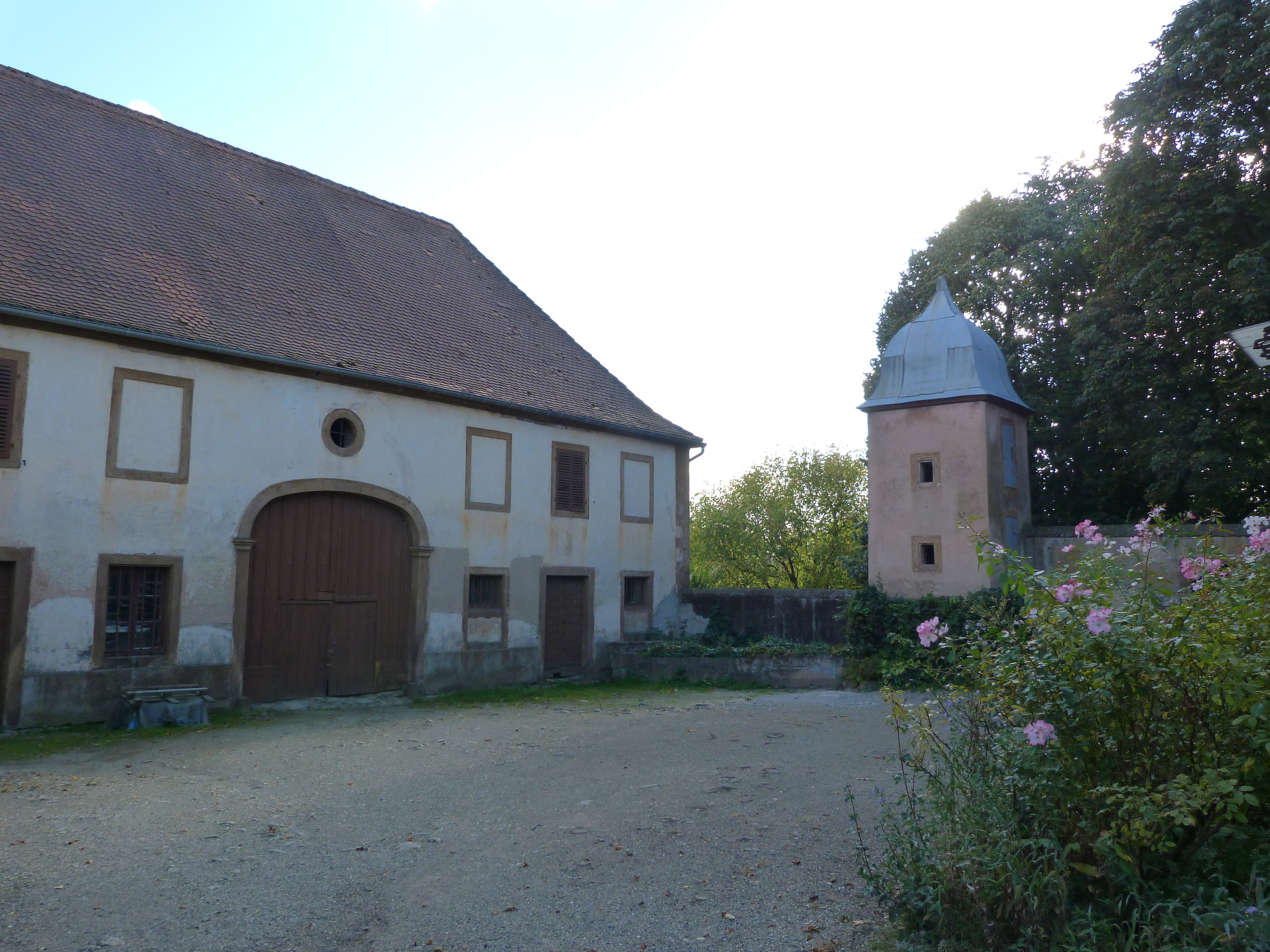 This building is indexed in the Base Mérimée, a database of architectural heritage maintained by the French Ministry of Culture, under the references PA00084698 and IA67000810 .